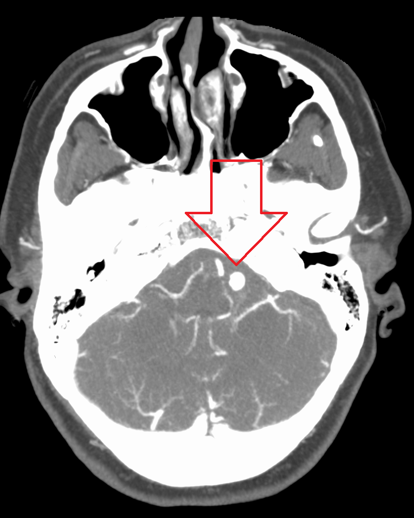 Ruptured 7mm left vertebral artery aneurysm resulting in a subarachnoid hemorrhage.